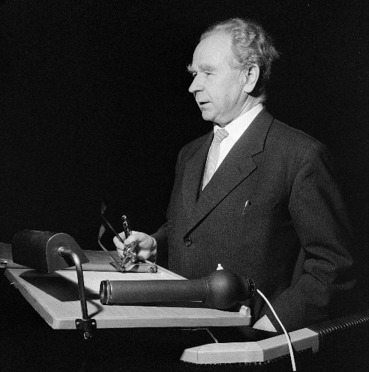 Photograph of the Finnish physicist Vilho Väisälä (1889–1969).